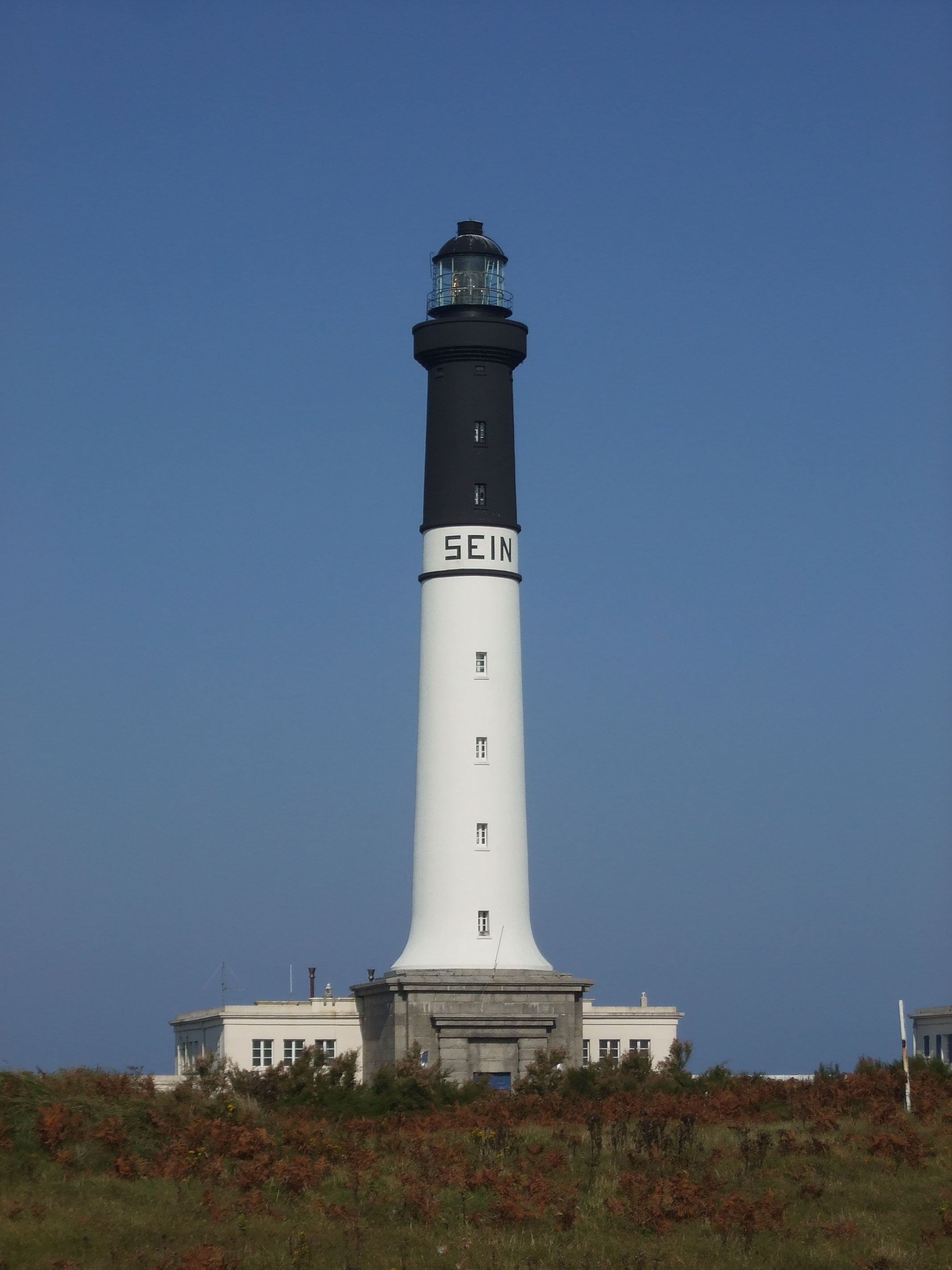 Big headlight of the island of Breast sein